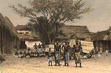 A depiction of a group of natives of Porto-Novo, Benin (formerly French Dahomey).